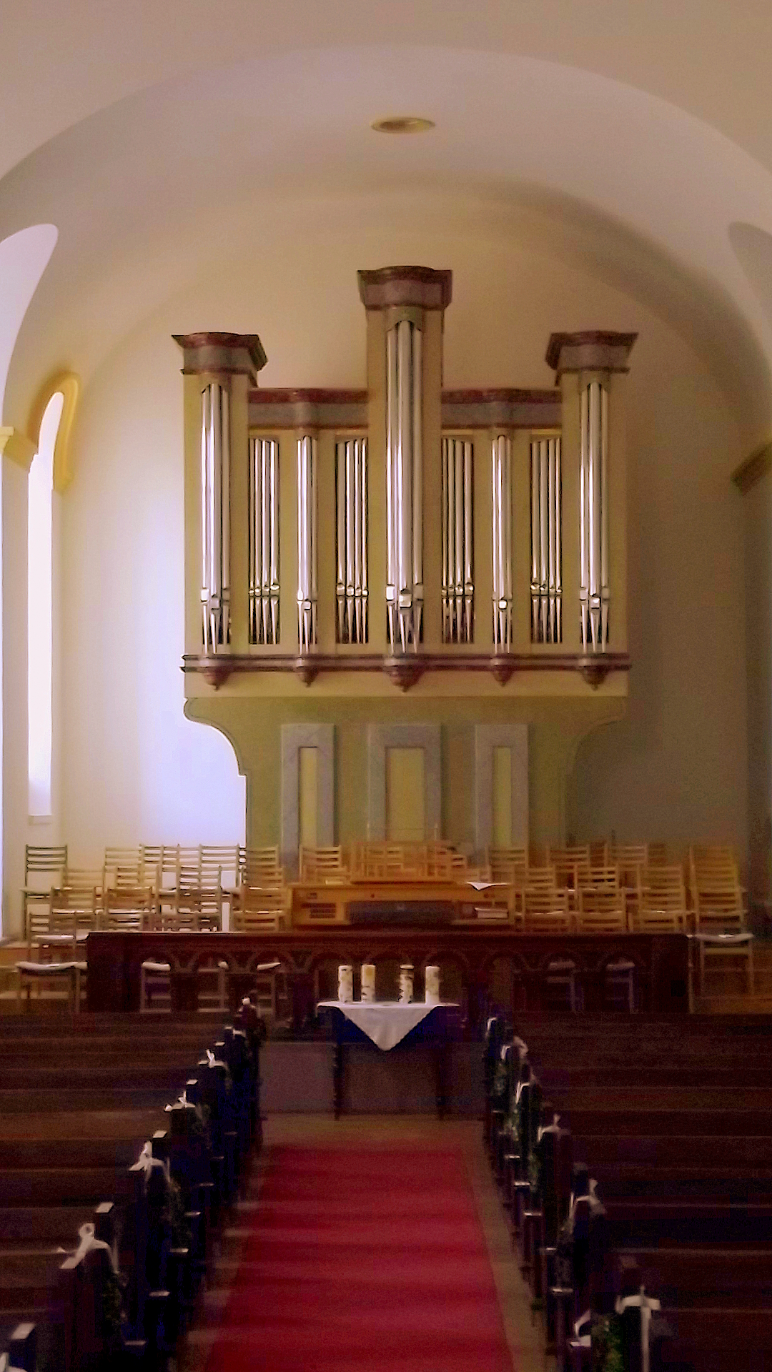 Interior of the roman catholic church in Perl, Saarland, Germany